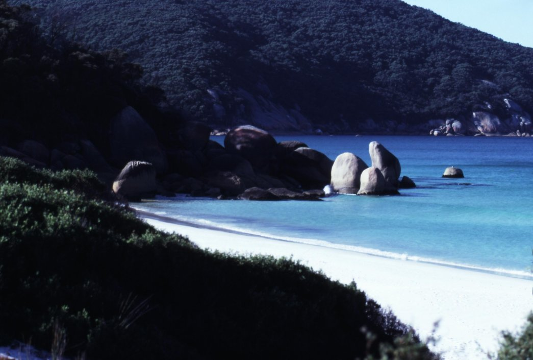 Waterloo Beach, photograph by John Catsoulis